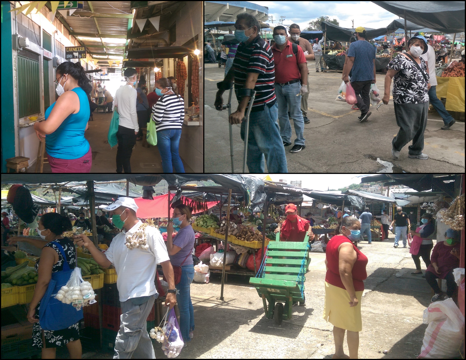 Farmer and Craftsman Fair, at the National Stadium parking lot (Tegucigalpa).